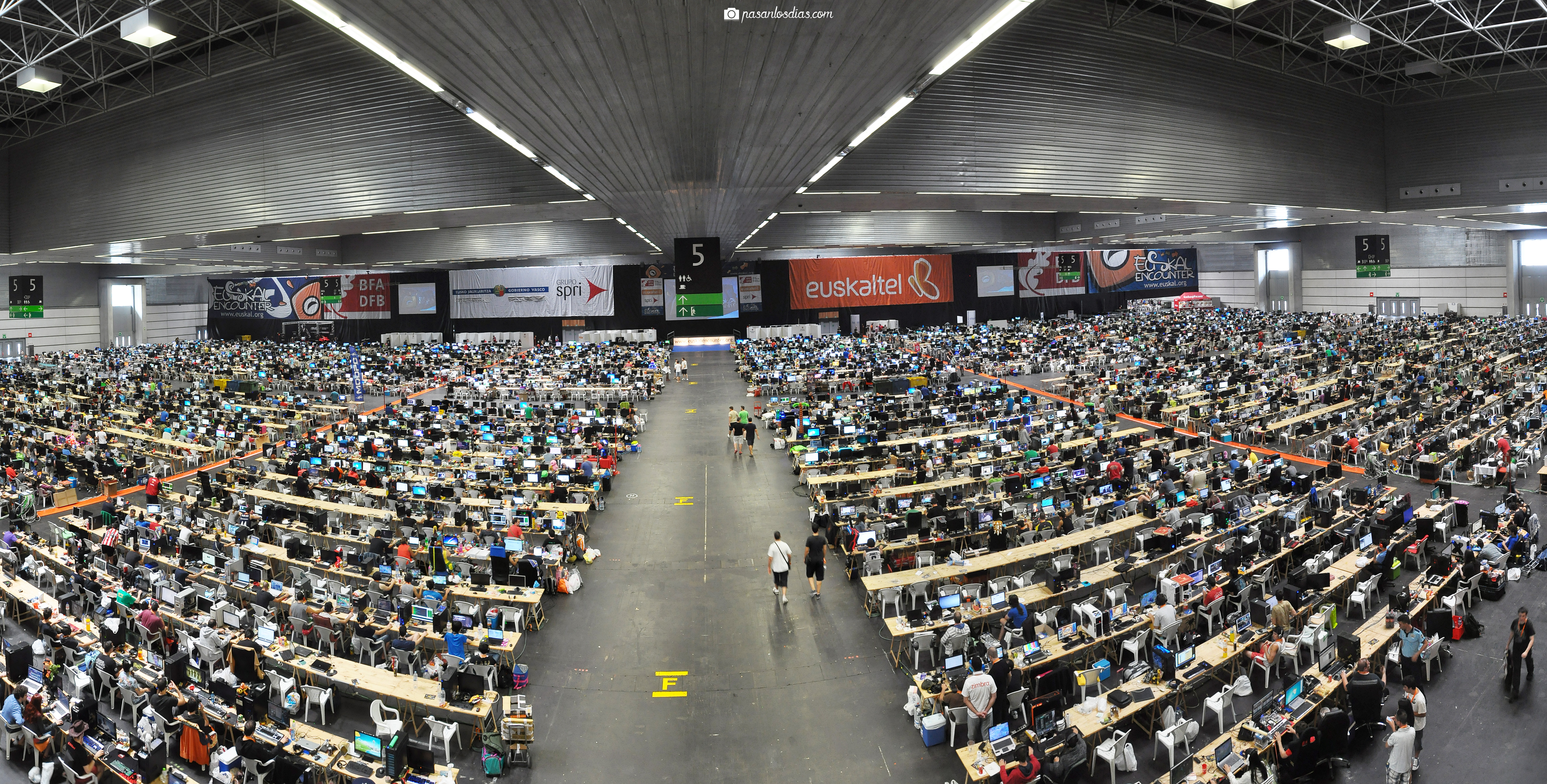 Euskal Enconuter, 2014.